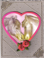 Greeting card with horses on